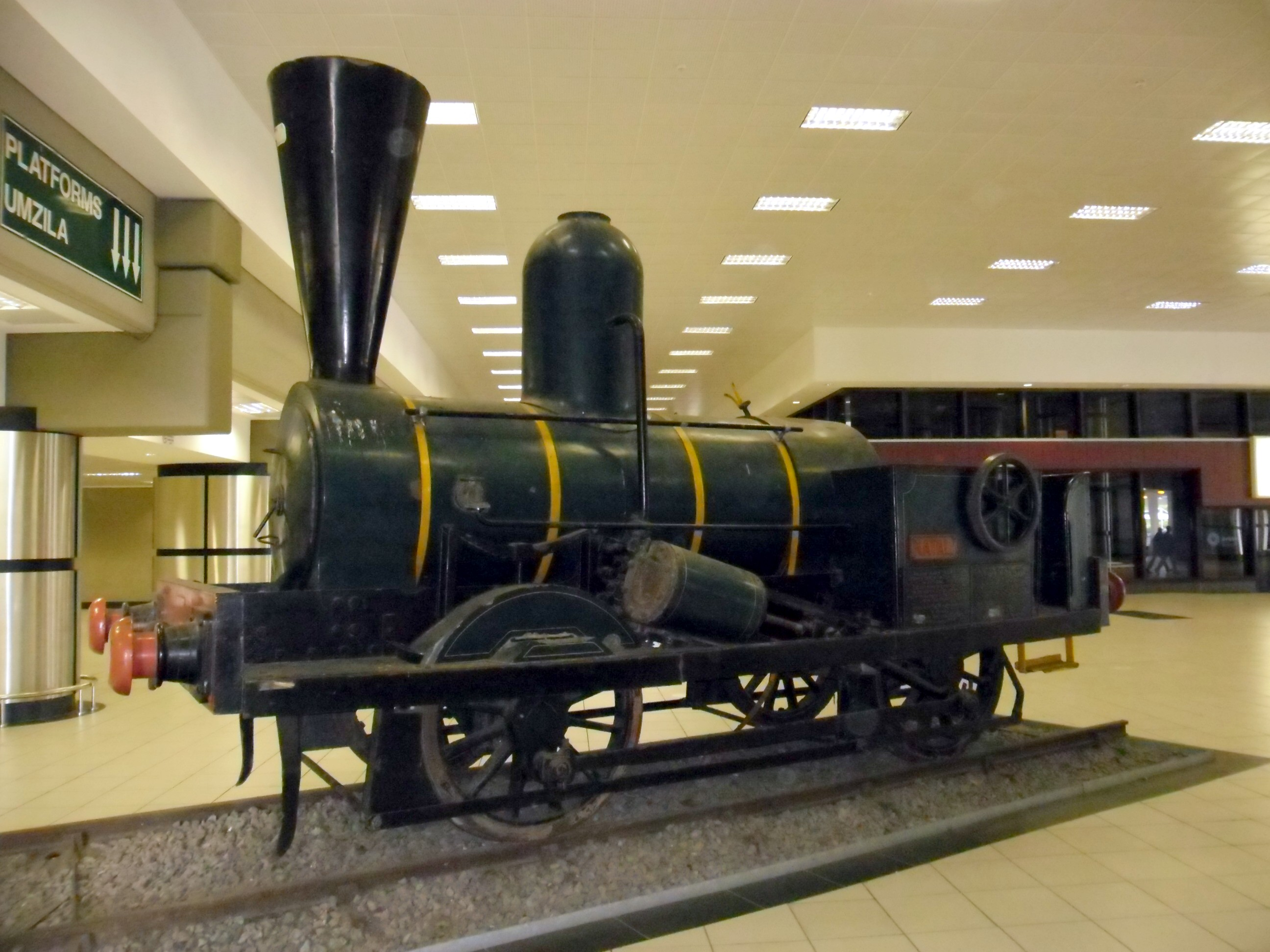 Natal Railway Co "Natal" (0-4-0WT)Location: Durban station, Natal